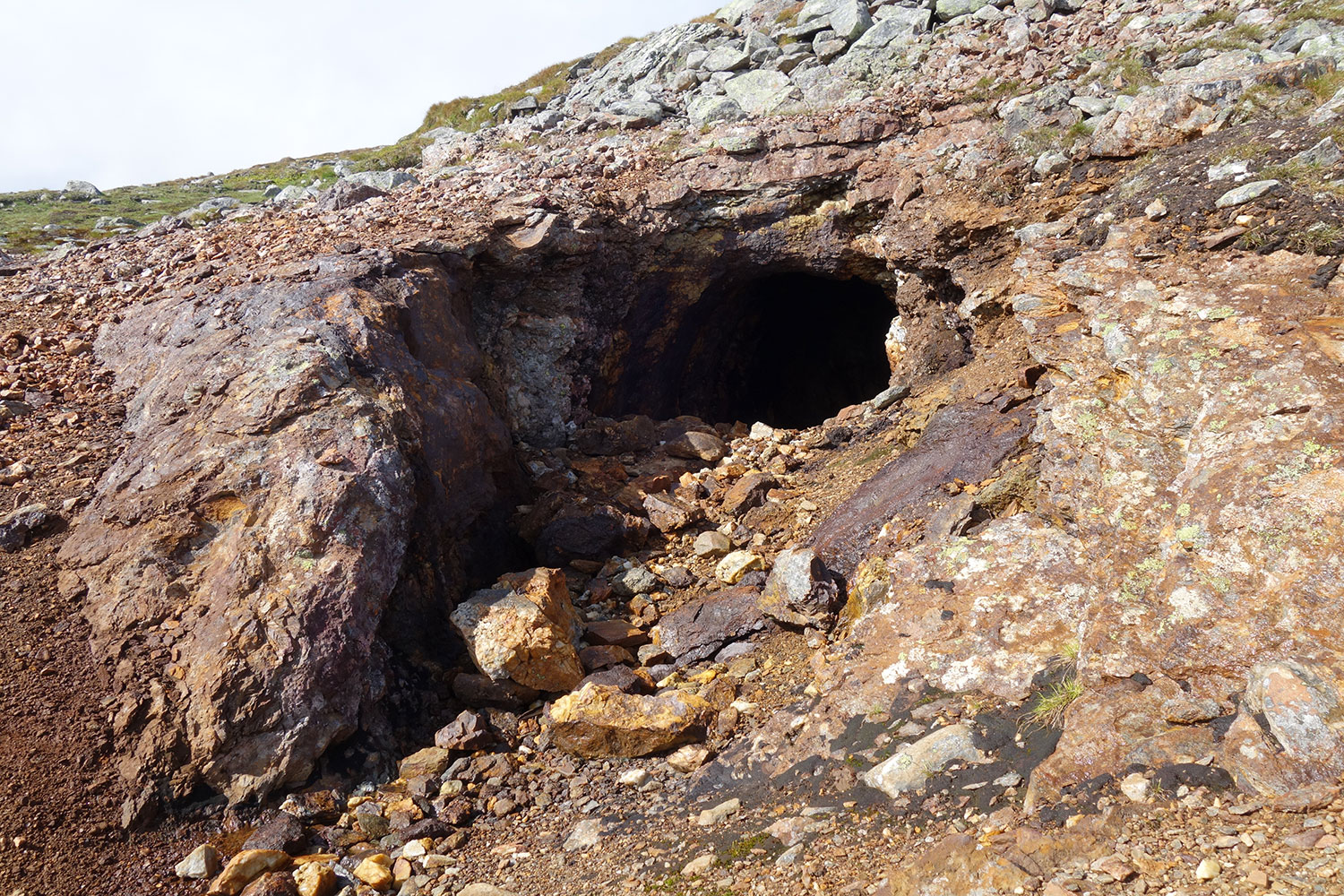 Old mining pit in the lower part of Överberget, the part of Mount Nasafjäll where mining was initiated in the 17th century.